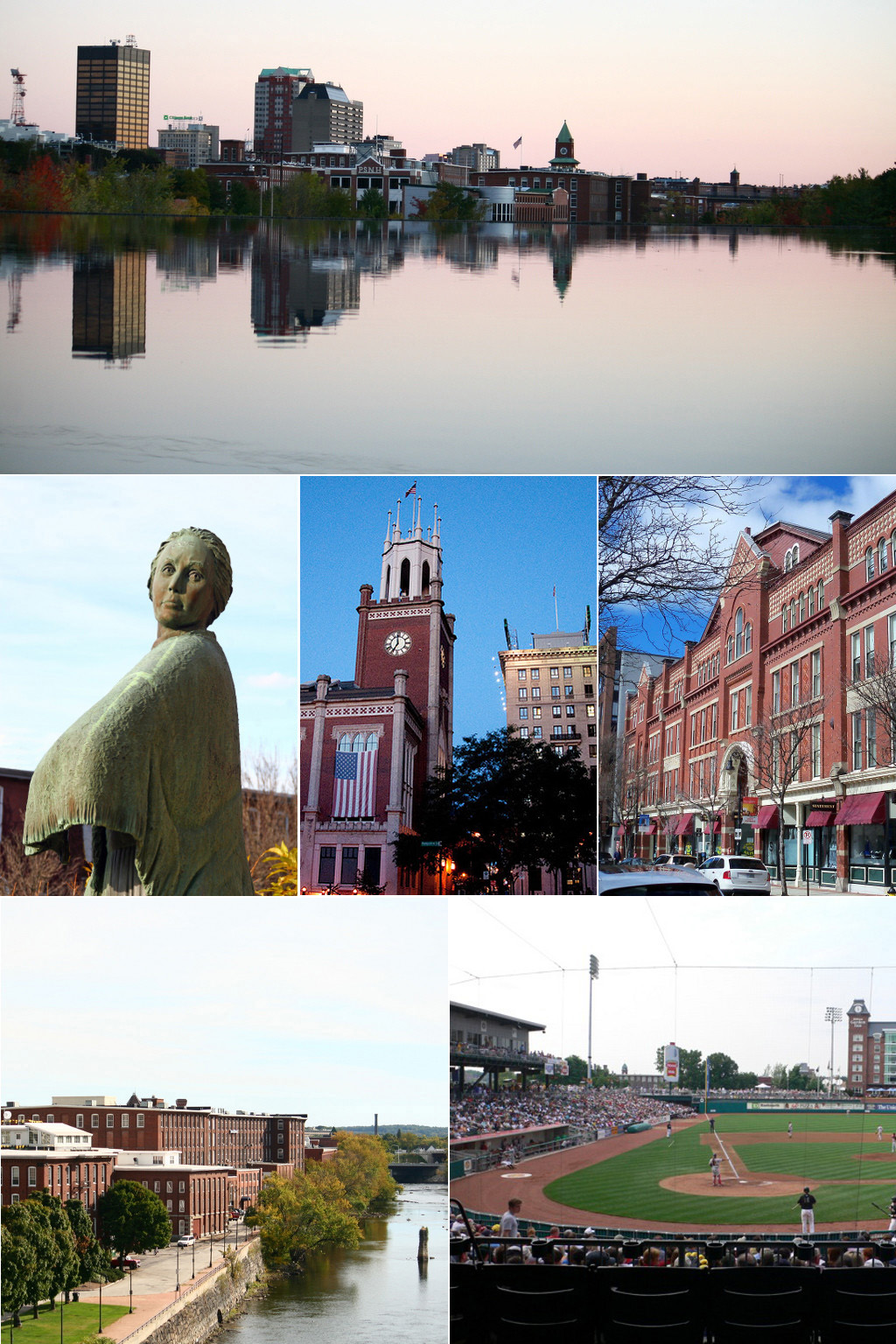 Clockwise from top: Manchester skyline from above Amoskeag Falls, Hanover Street, a Fisher Cats game at Northeast Delta Dental Stadium, the Arms Park Riverwalk and Millyard, and City Hall.